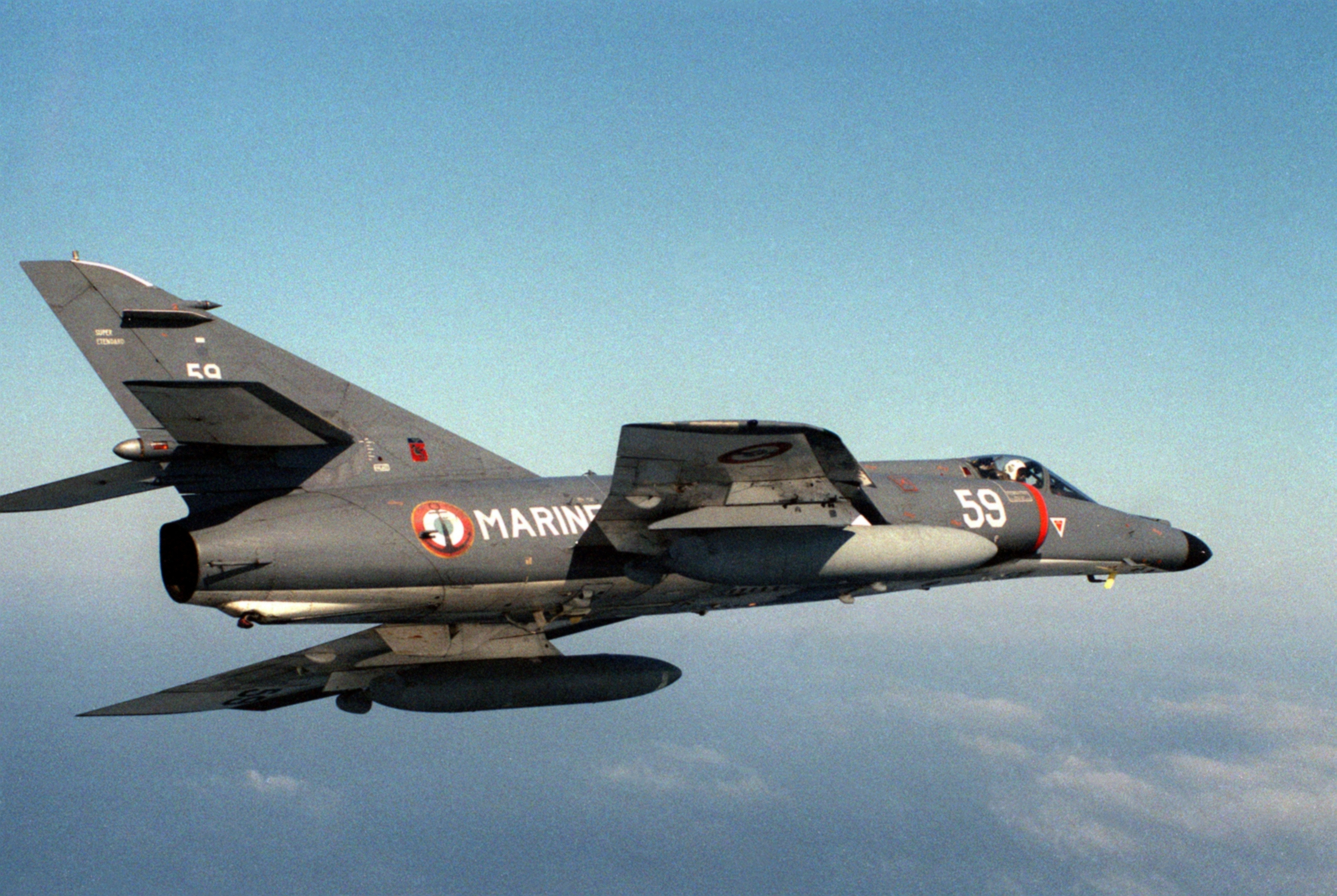 A French Aéronavale Dassault Super Étendard from Flottille 11F in flight during exercise "French Quarter '88".